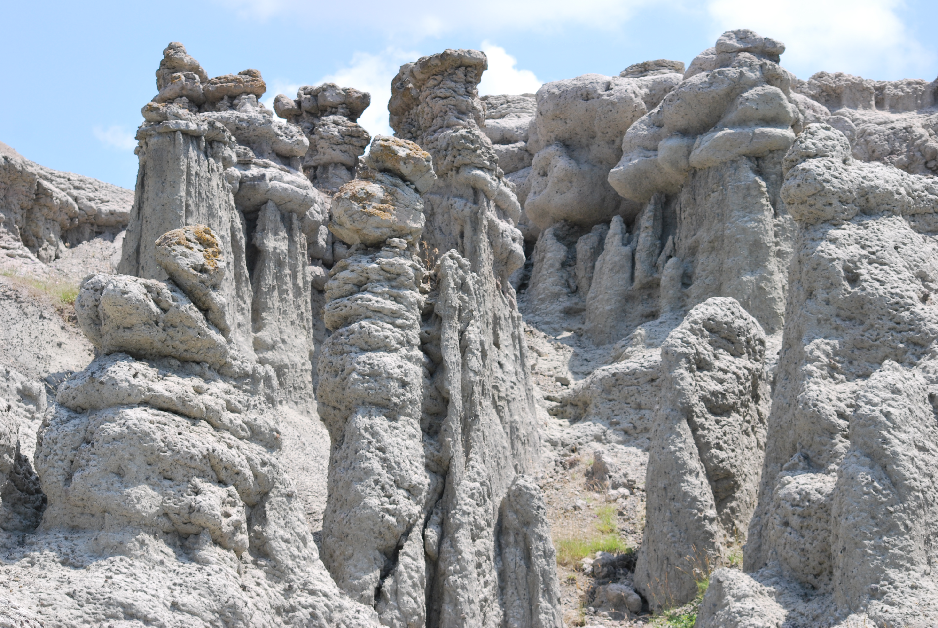 "Stone Dolls" - naturally formed stone pillars. Kuklica, Macedonia